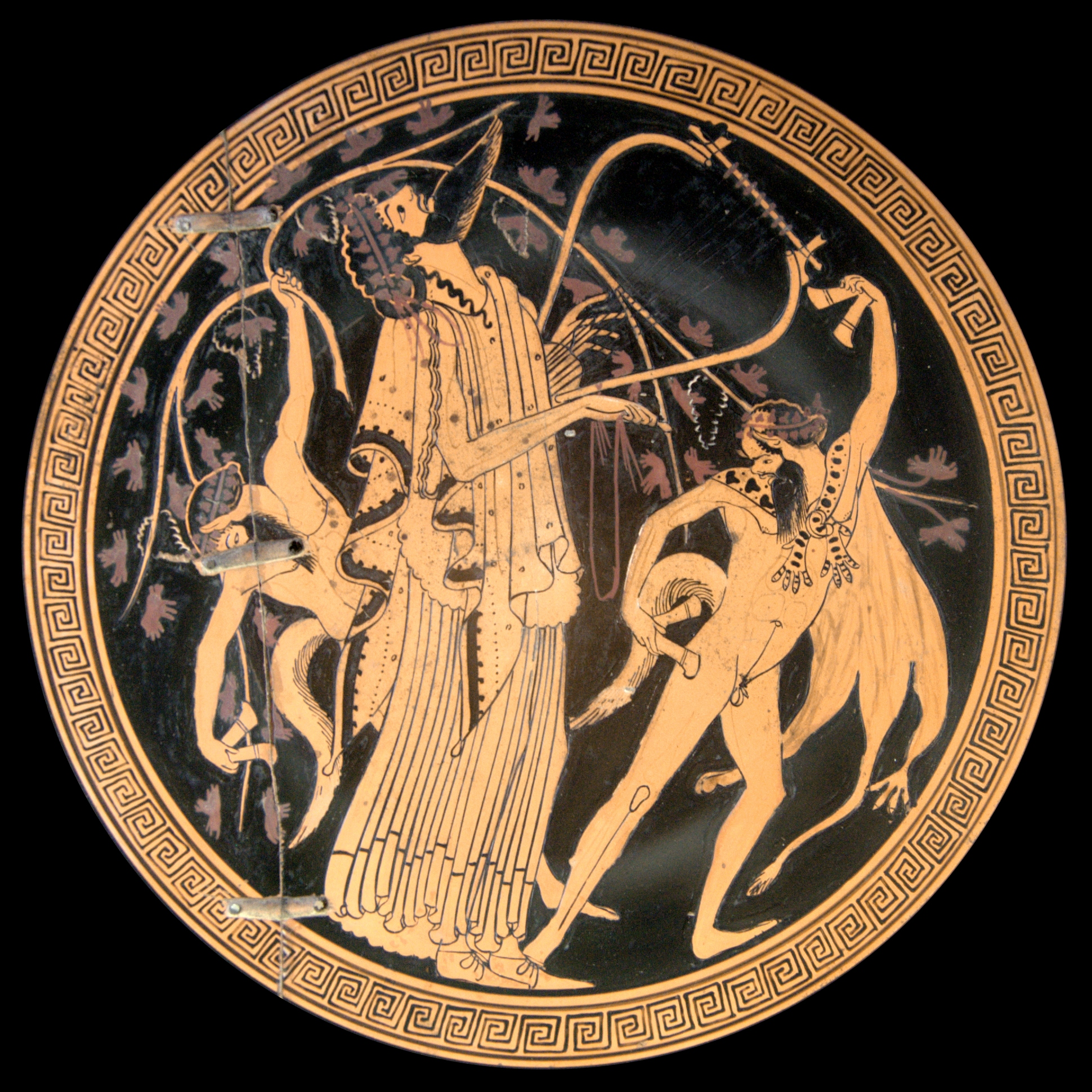 Dionysos and sileni. Attic red-figured cup interior, ca. 480 BC.